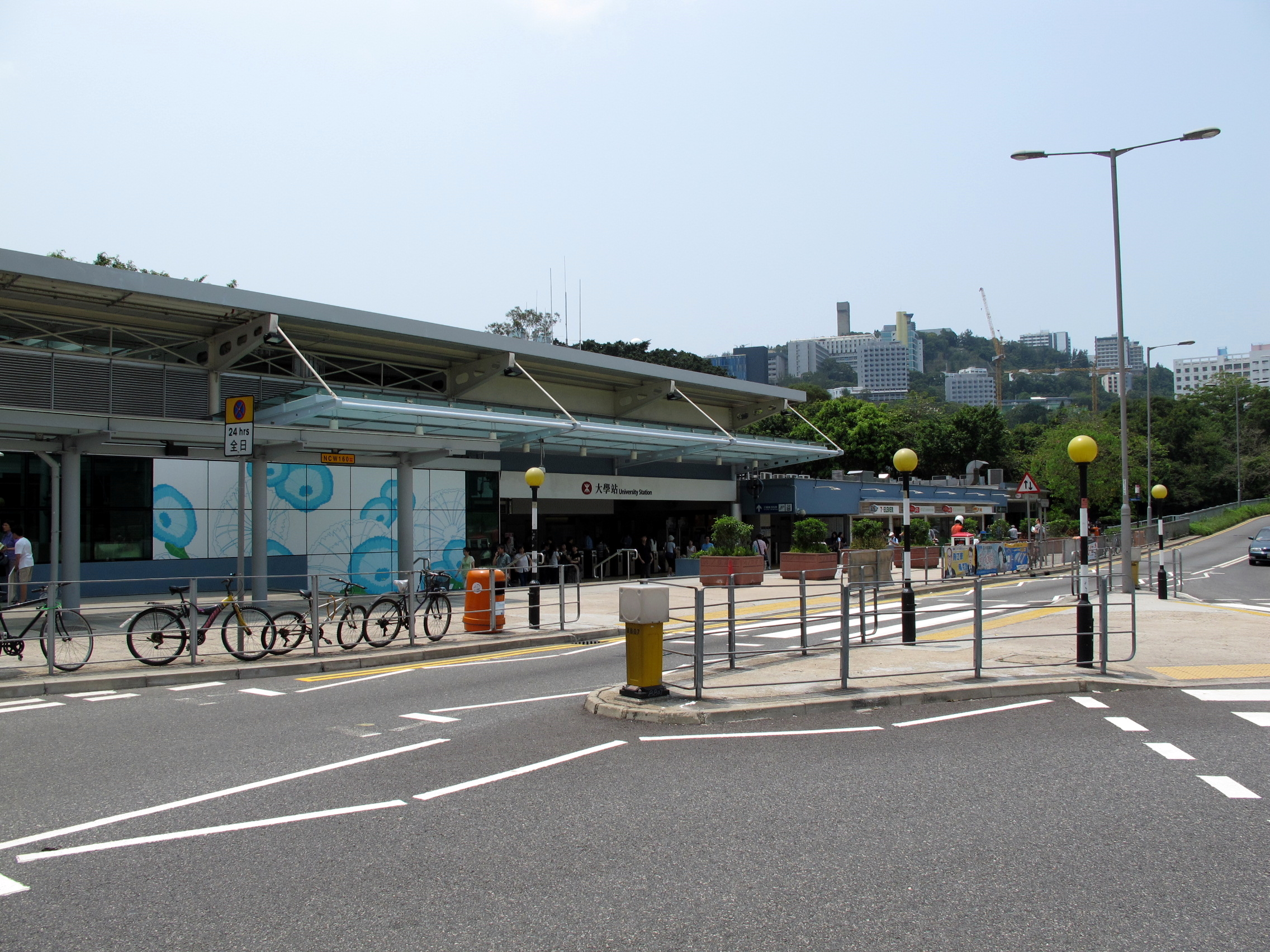 HK University Station 港鐵大學站